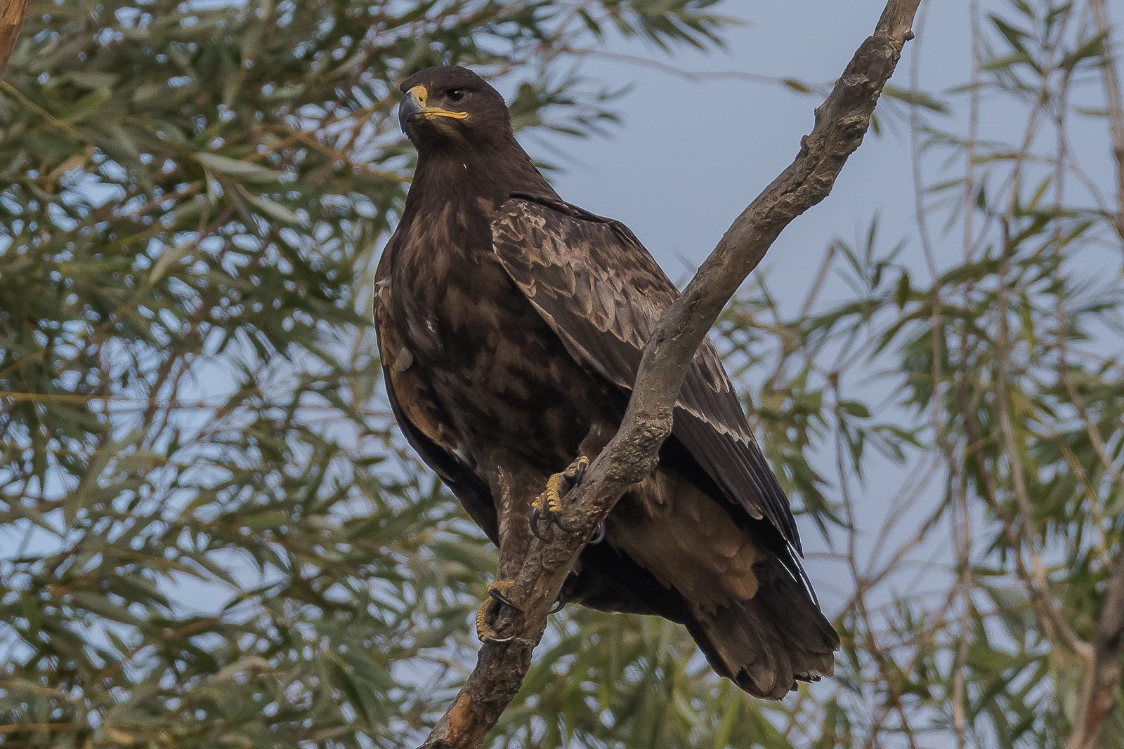 This is an image of the Biosphere Reserve or a Geopark: Astrakhan Nature Reserve